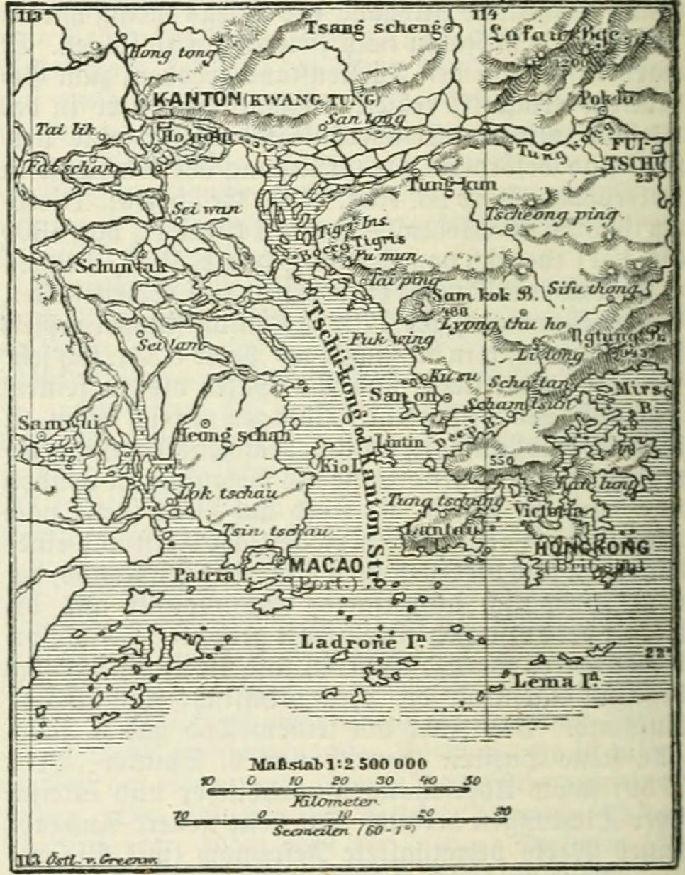 Map of Canton, Macau, and Hong Kong